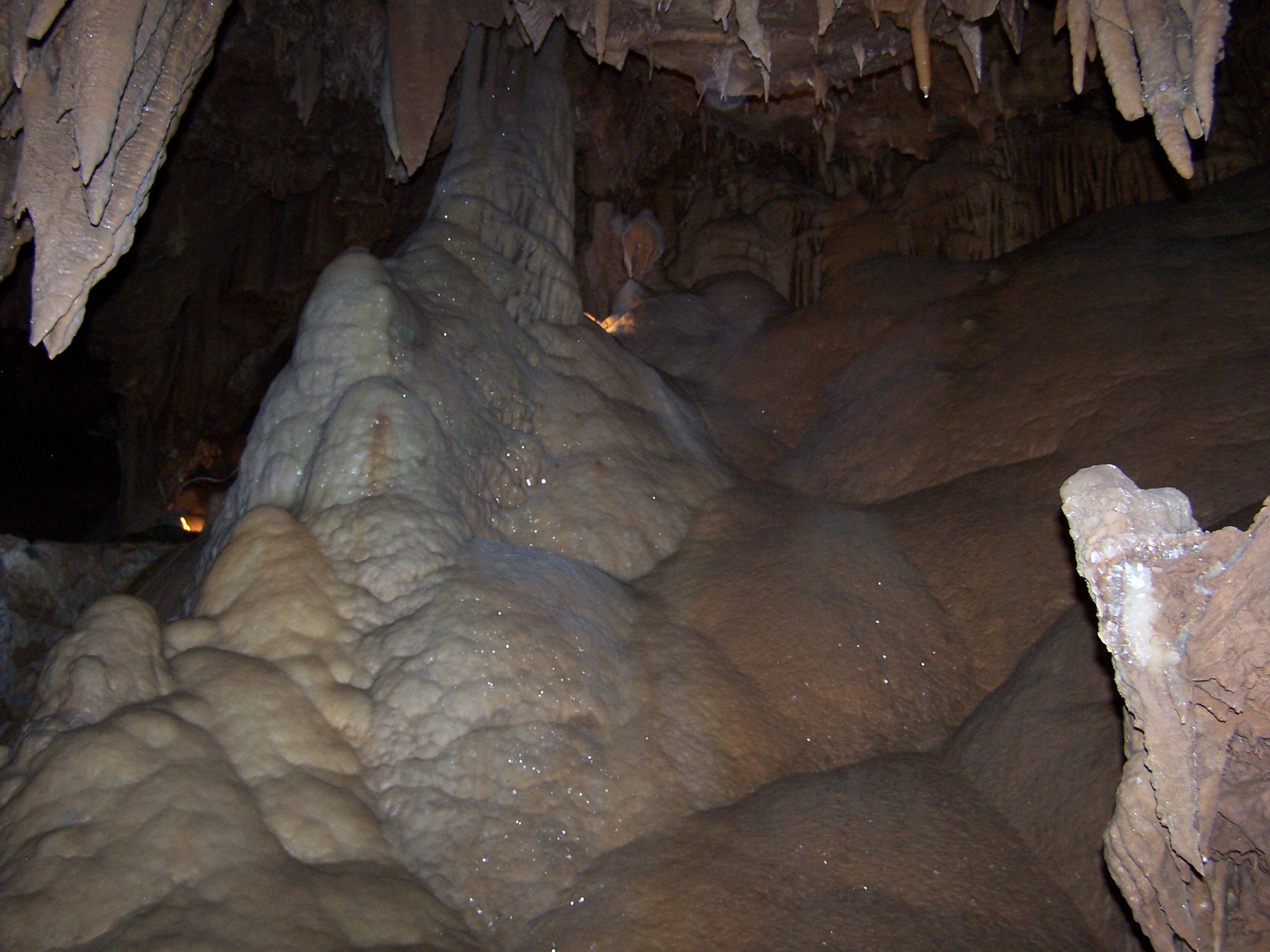 Stalagmites, stalactites, and flowstone in the Lake Shasta Caverns.